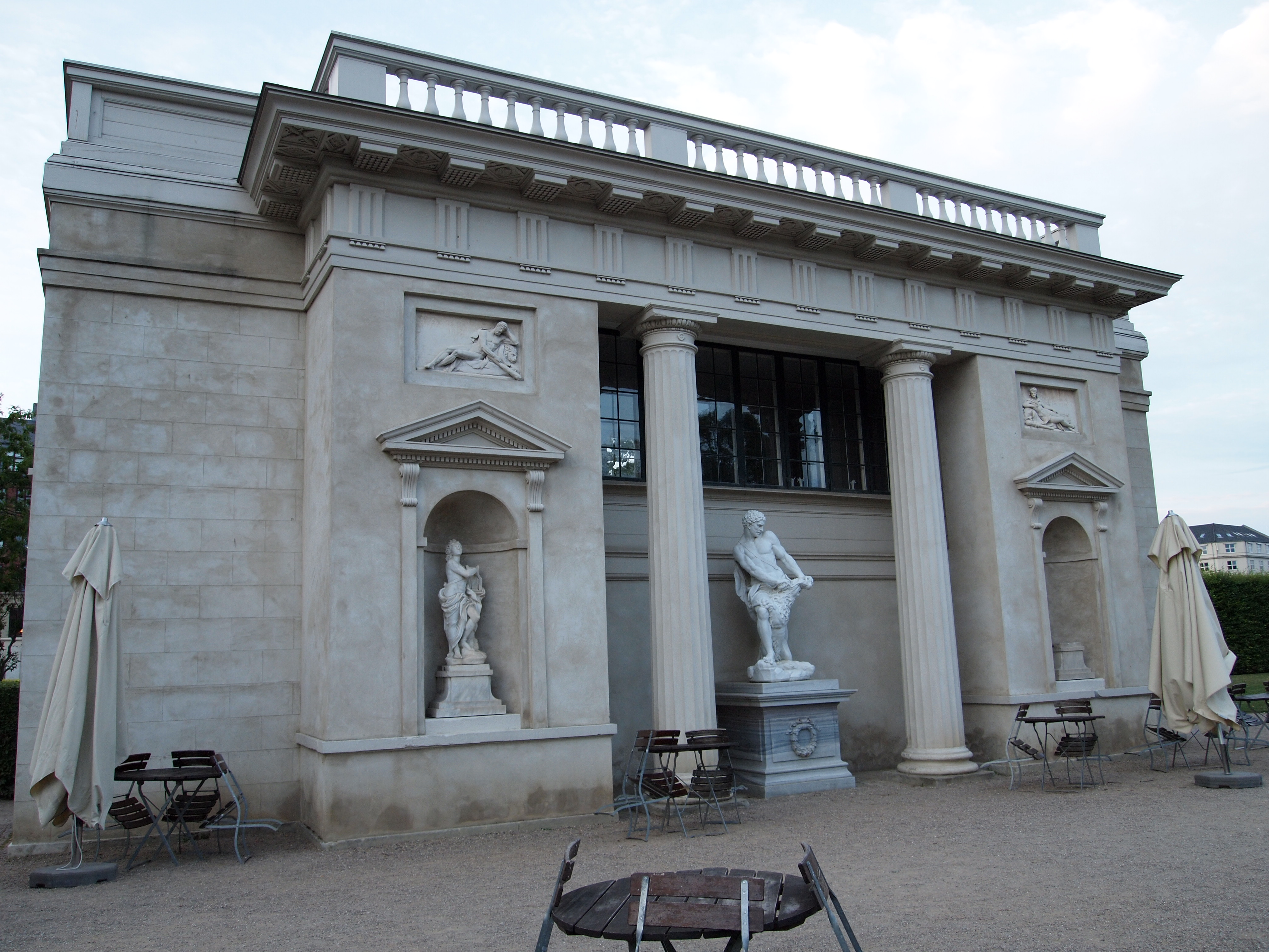 The Herculespavillon in the Royal Garden in Copenhagen